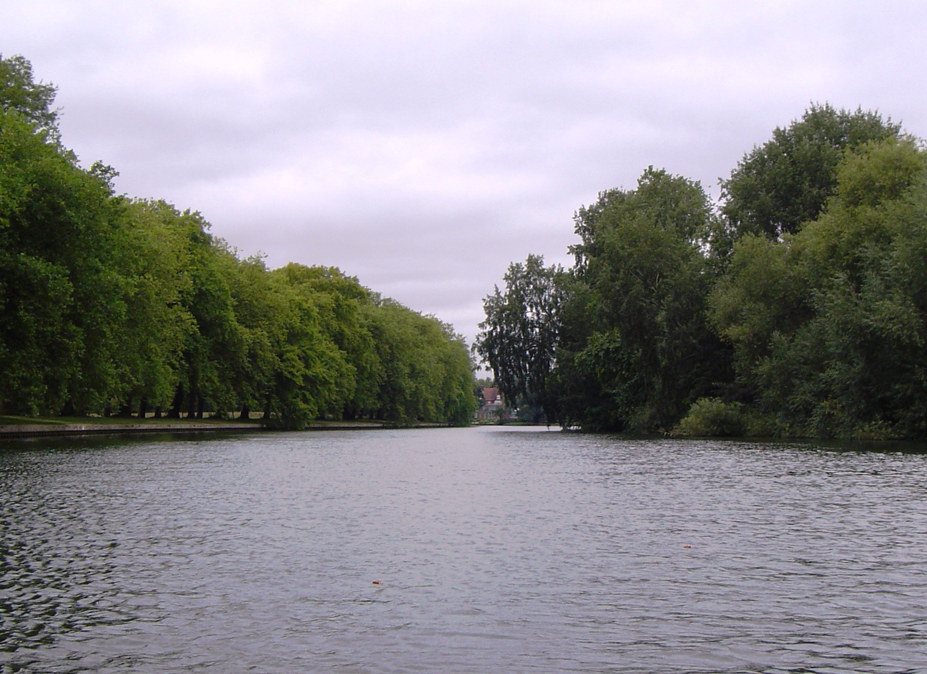 River Thames near Datchet